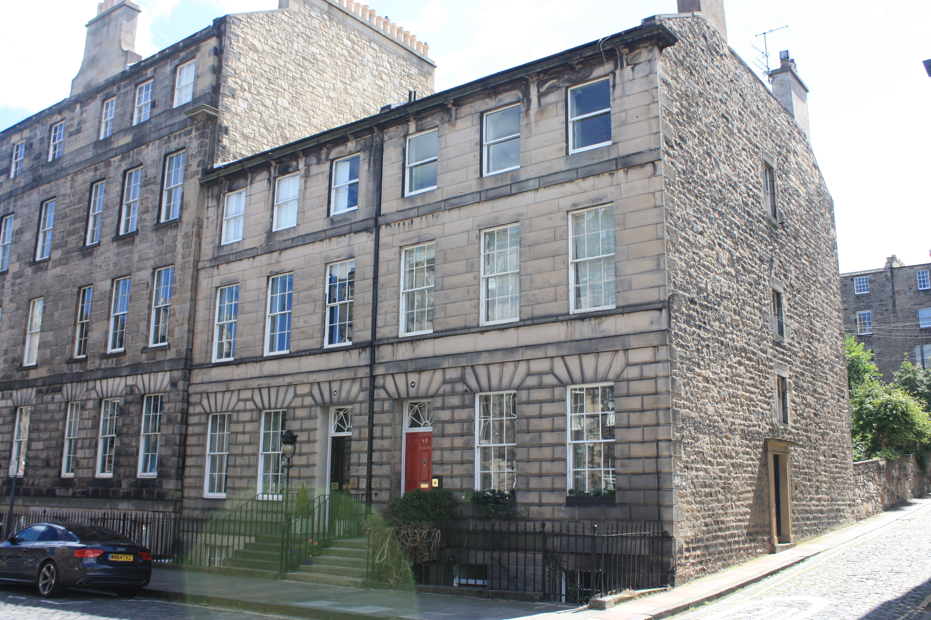 38,40 Northumberland Street, Edinburgh